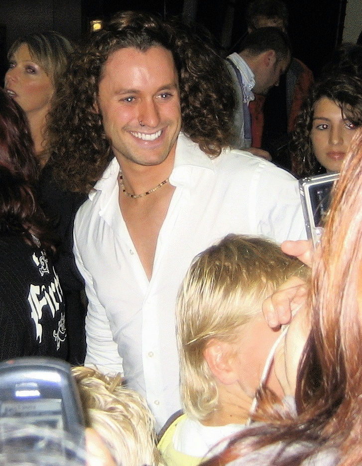 Keagan at a Dutch premiere, November 2006